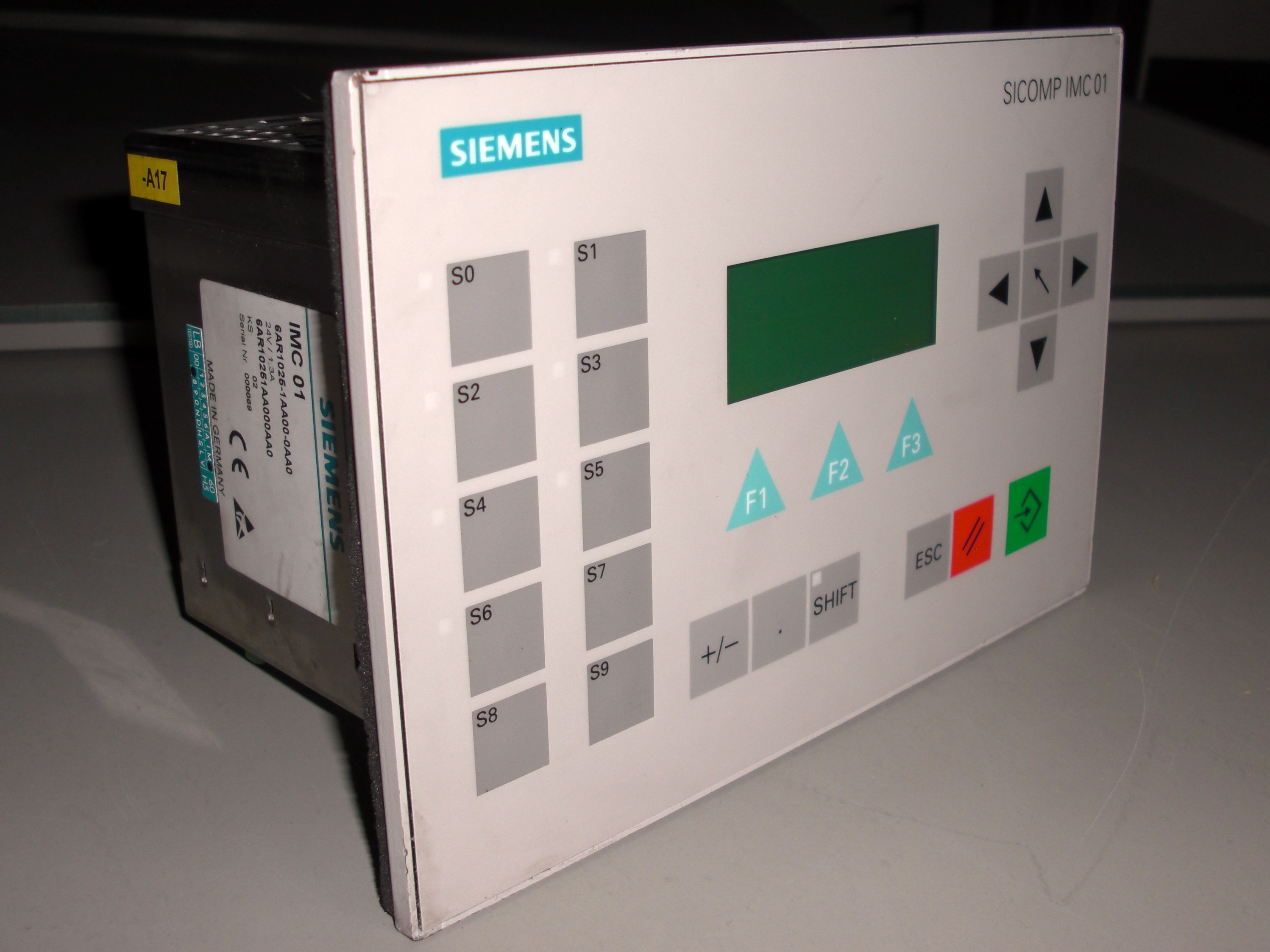 Siemens SICOMP IMC 01 Microcontroller